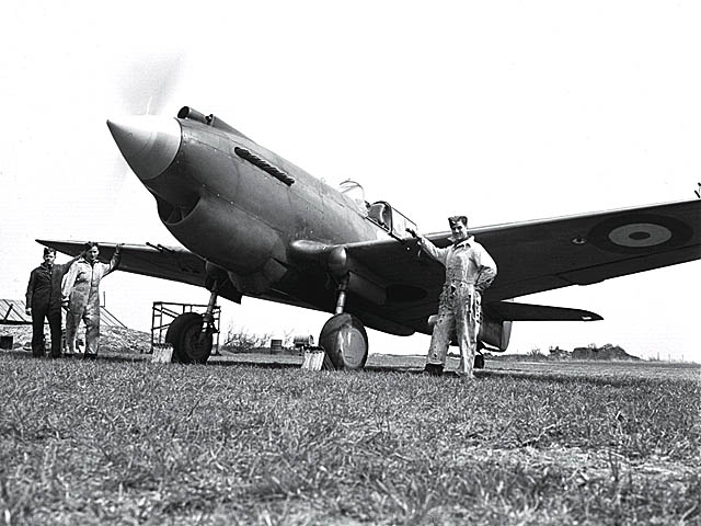 Curtiss Model 81A P-40 Tomahawk